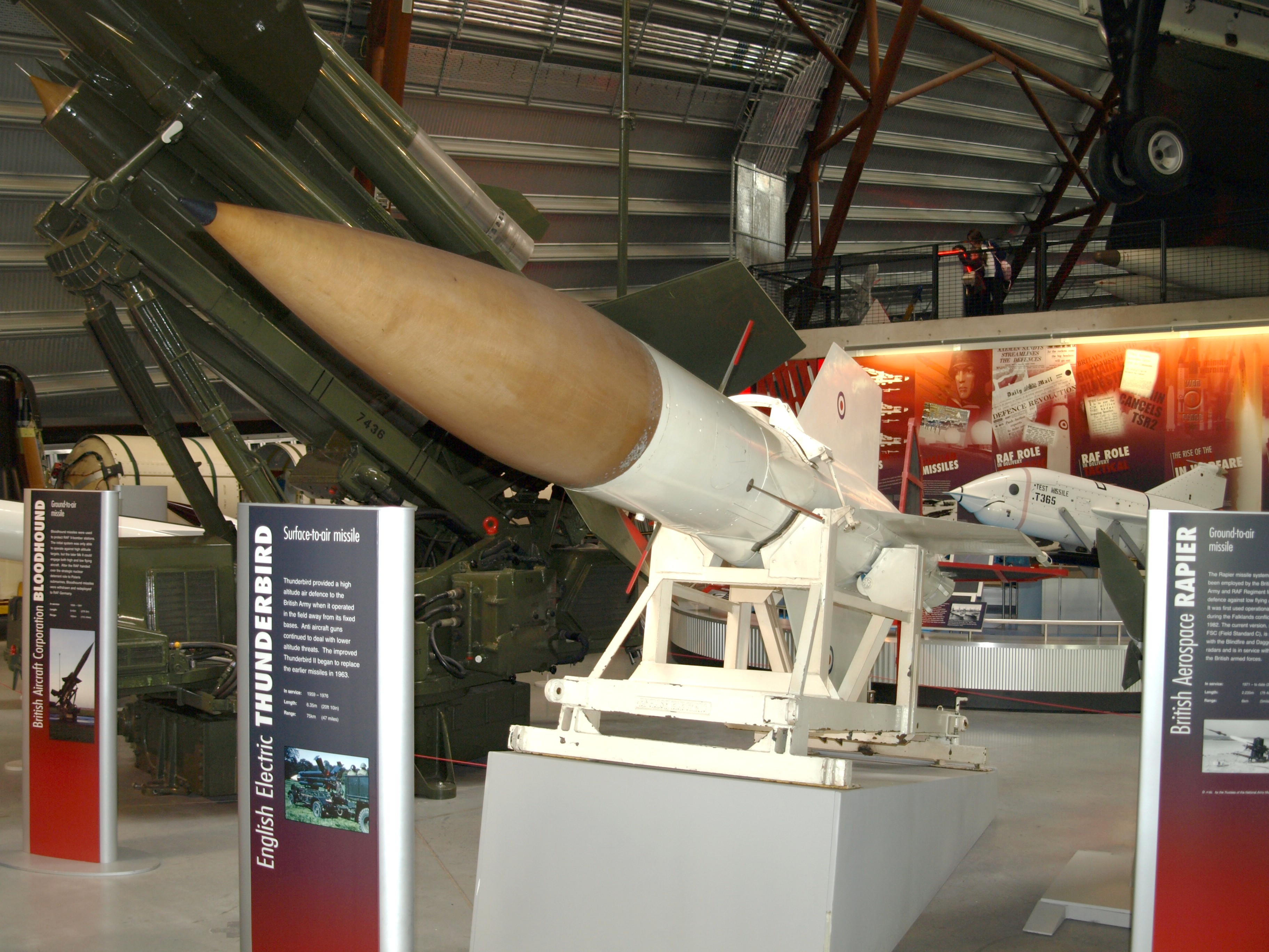 English Electric Thunderbird missile at the National Cold War Exhibition, Royal Air Force Museum Cosford